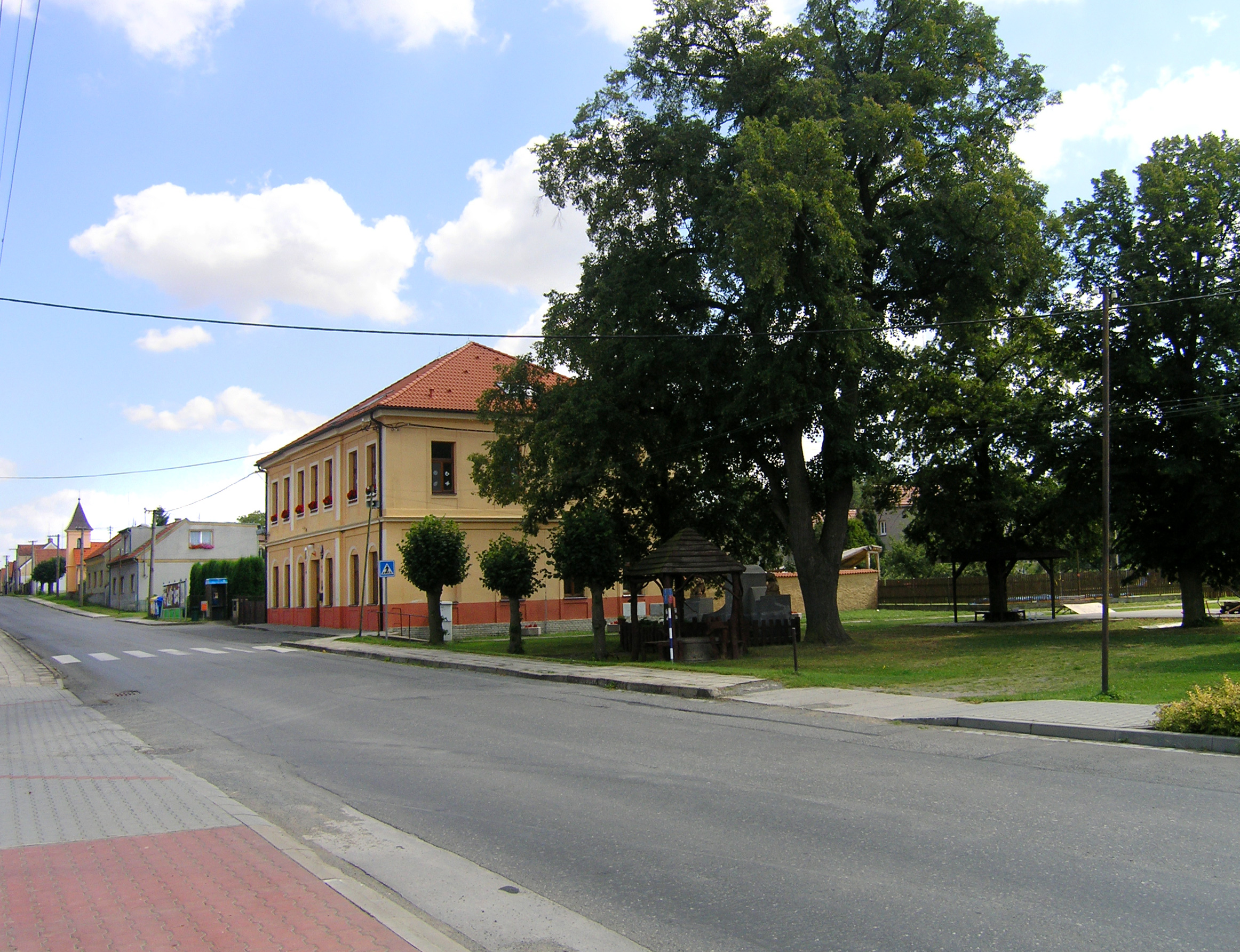 Municipal office and a school in Horní Bezděkov, Czech Republic